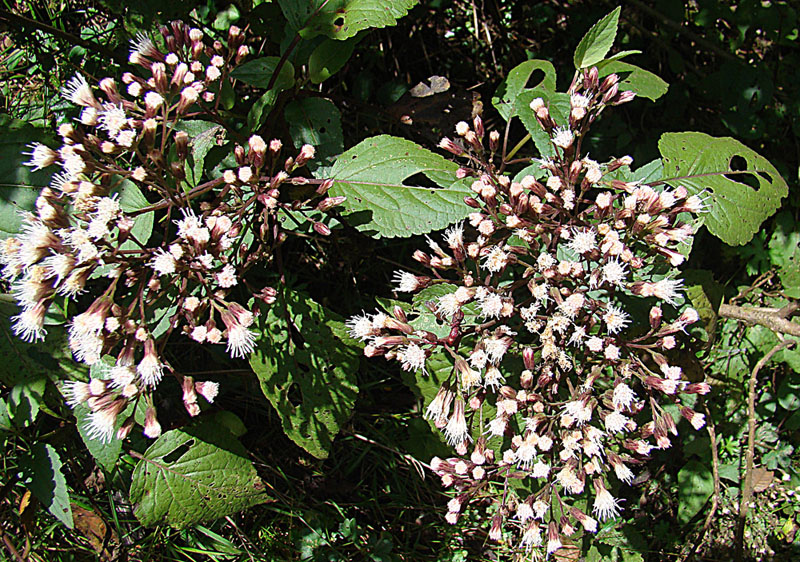 Native from Mexico to Panama, here near Dota, Costa Rica. In context at